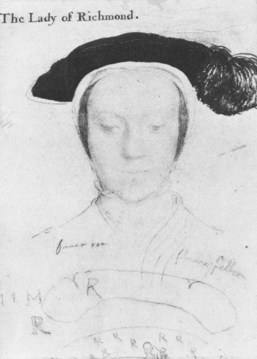 Mary Howard, Duchess of Richmond